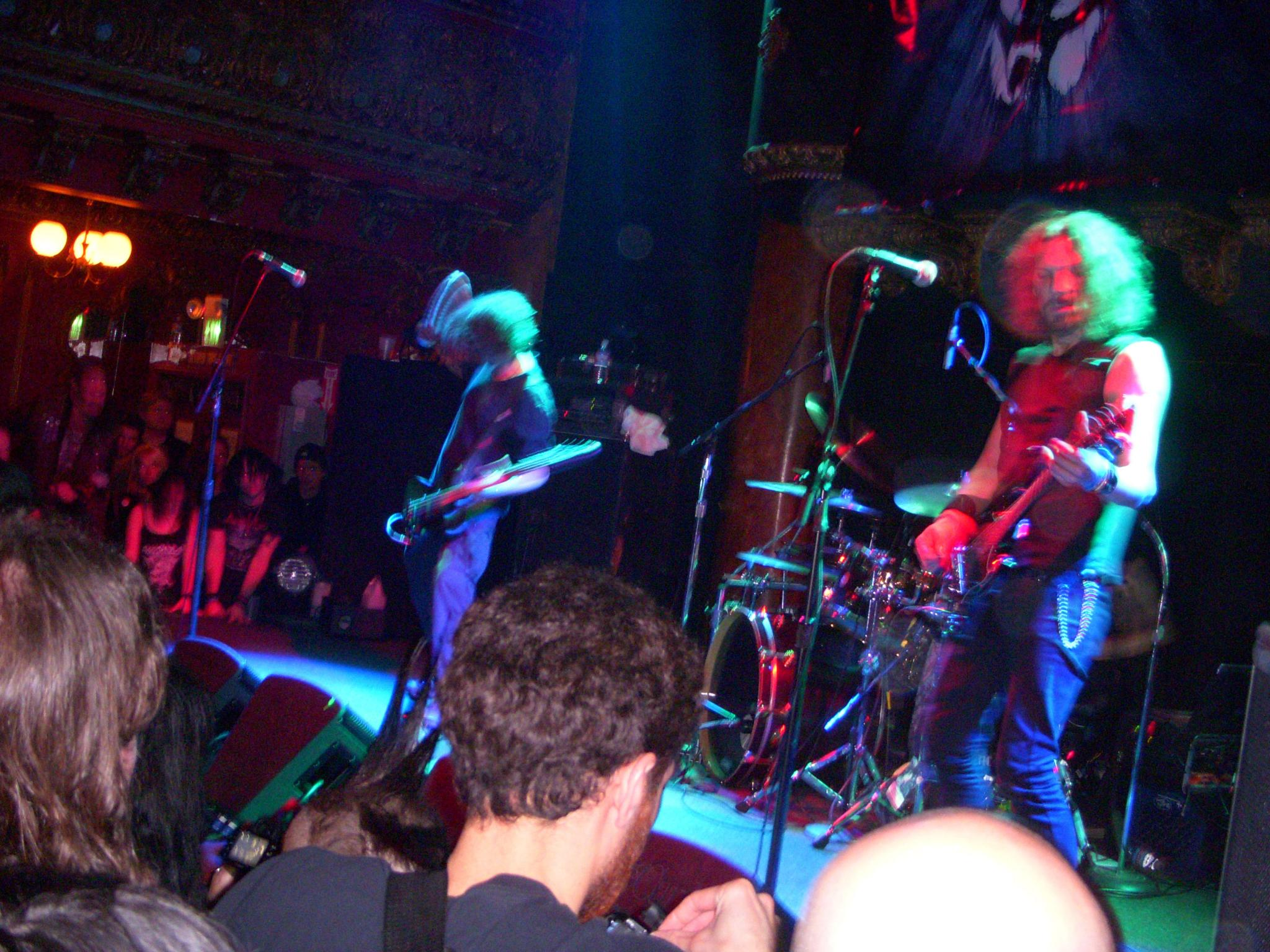 Amebix live in concert in 2009.